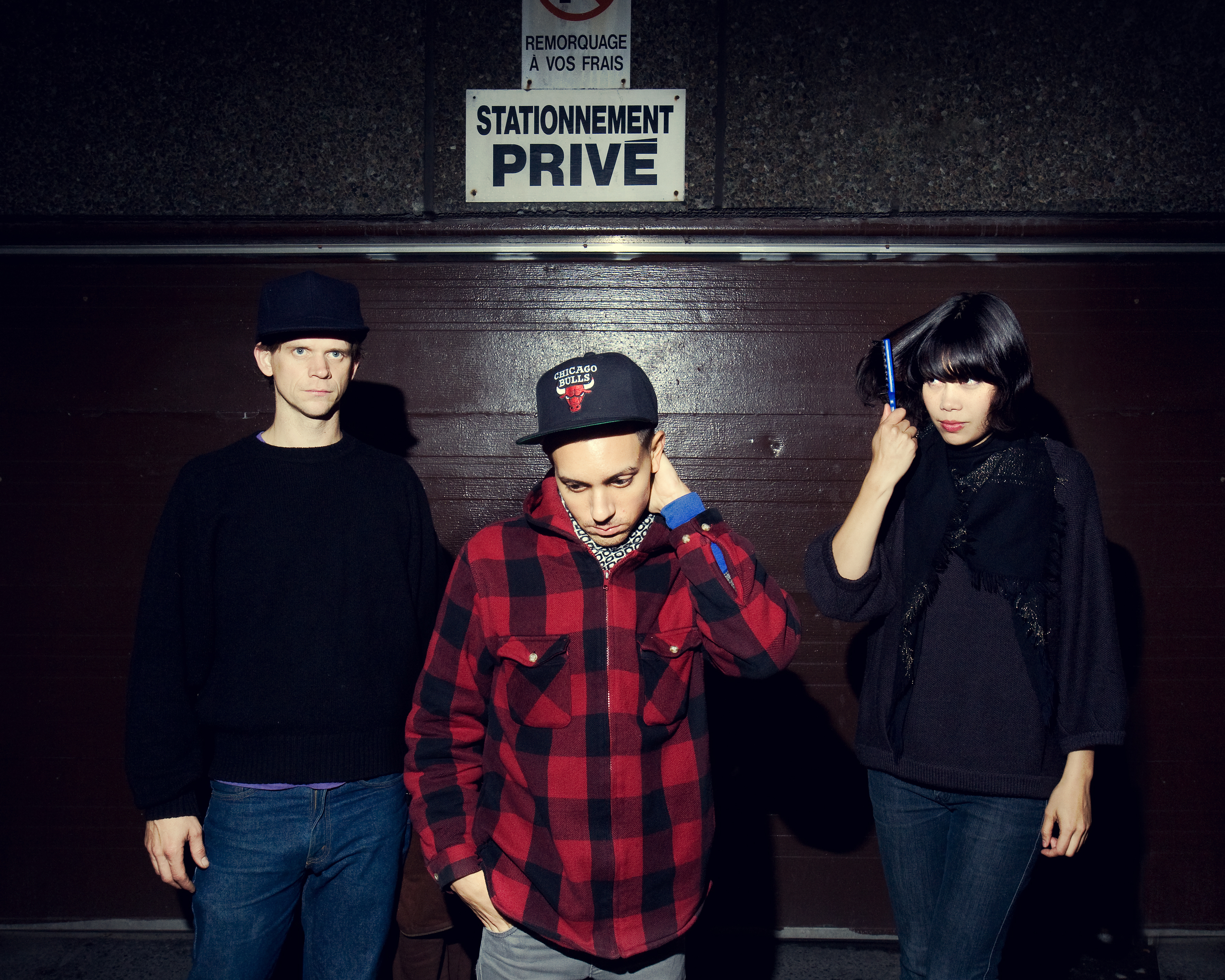 These Are Powers photo by Maxyme G. Deslisle